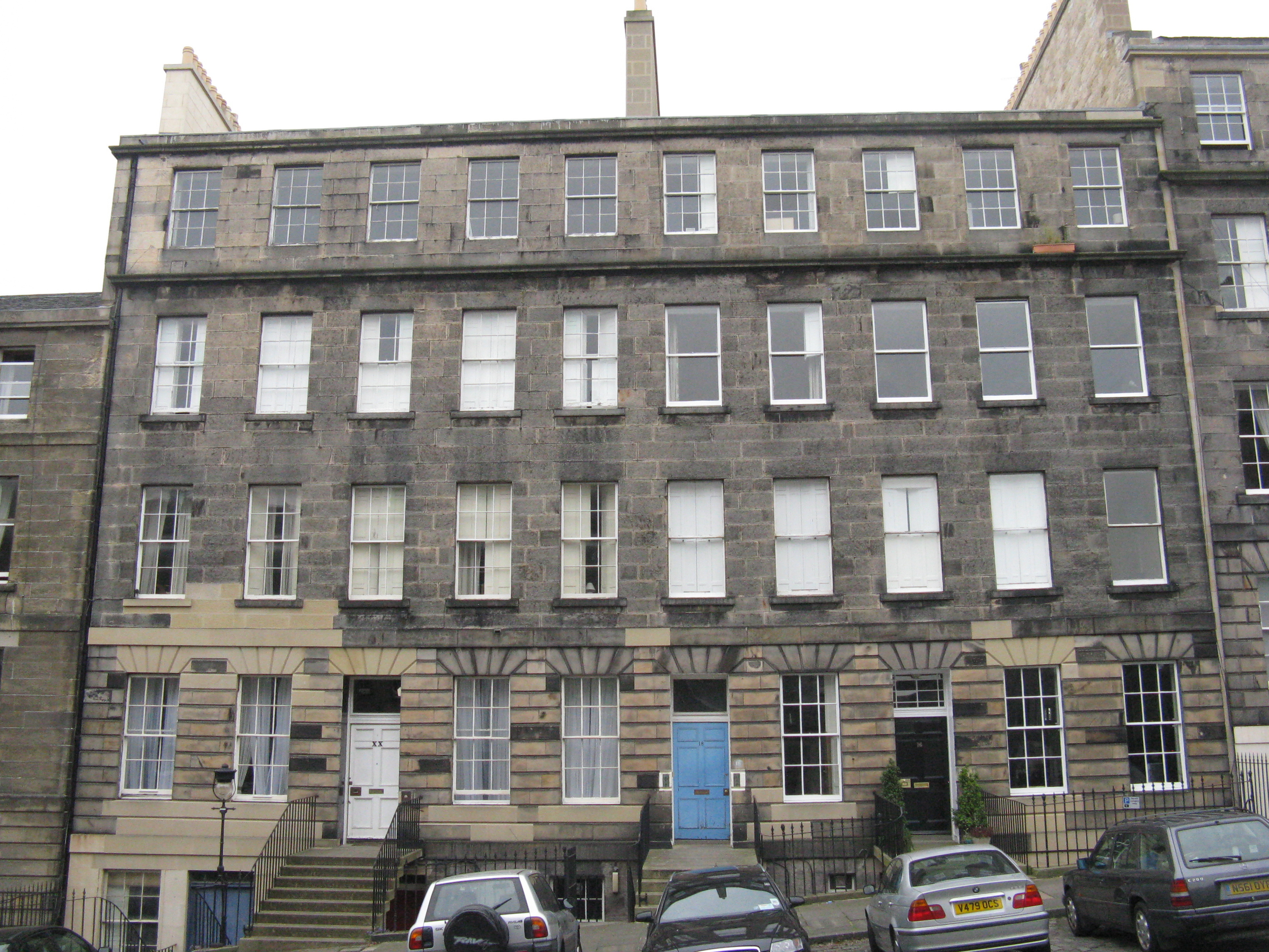 18 Dundonald Street, Edinburgh